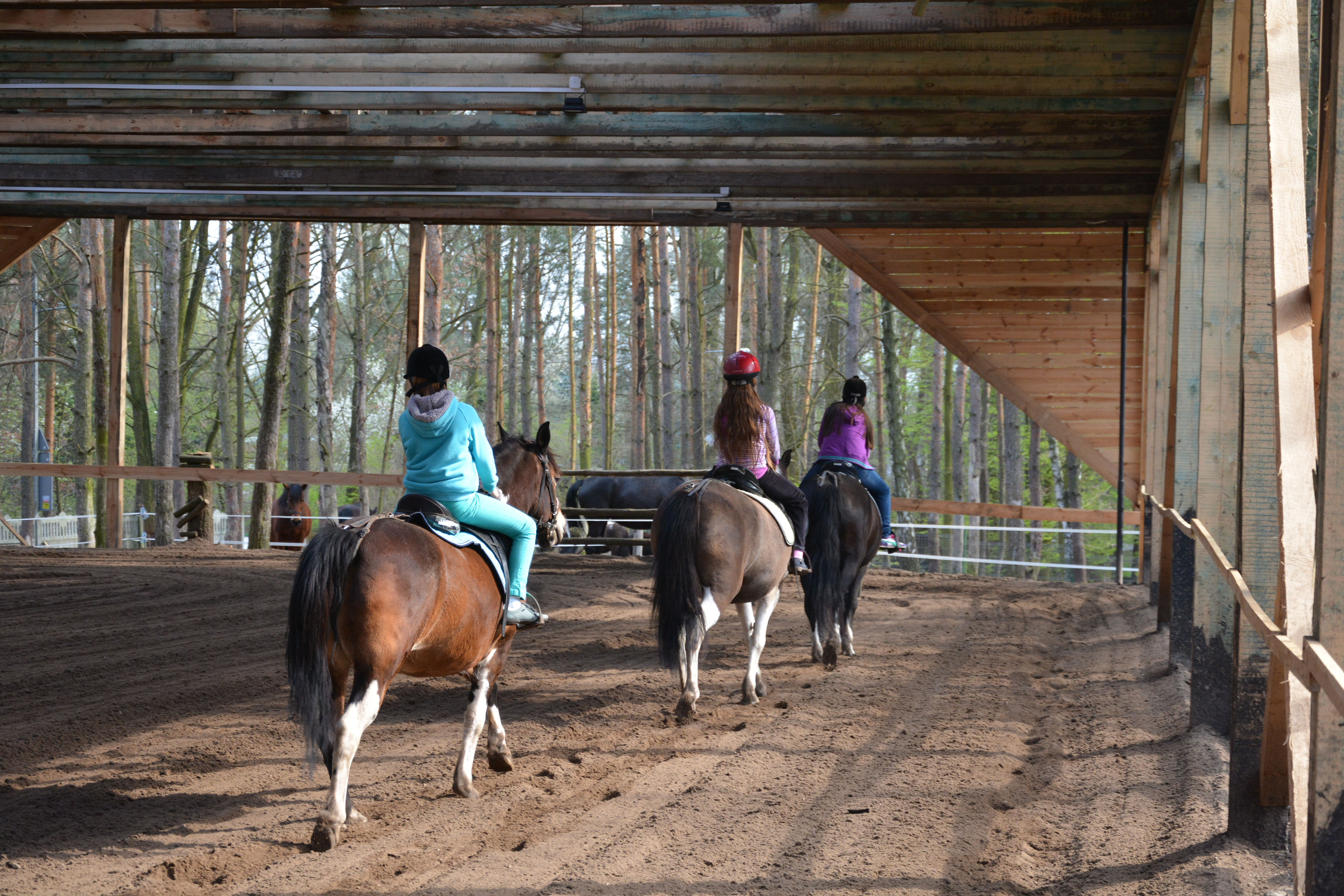 Stadnina koni na Białołęce Dworskiej